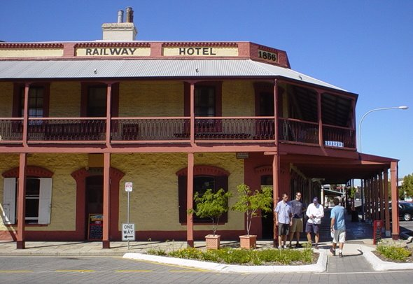 Railway Hotel, Port Adelaide. Opposite the site of the original Port Adelaide Railway Station, the terminus of the first railway in South Australia.